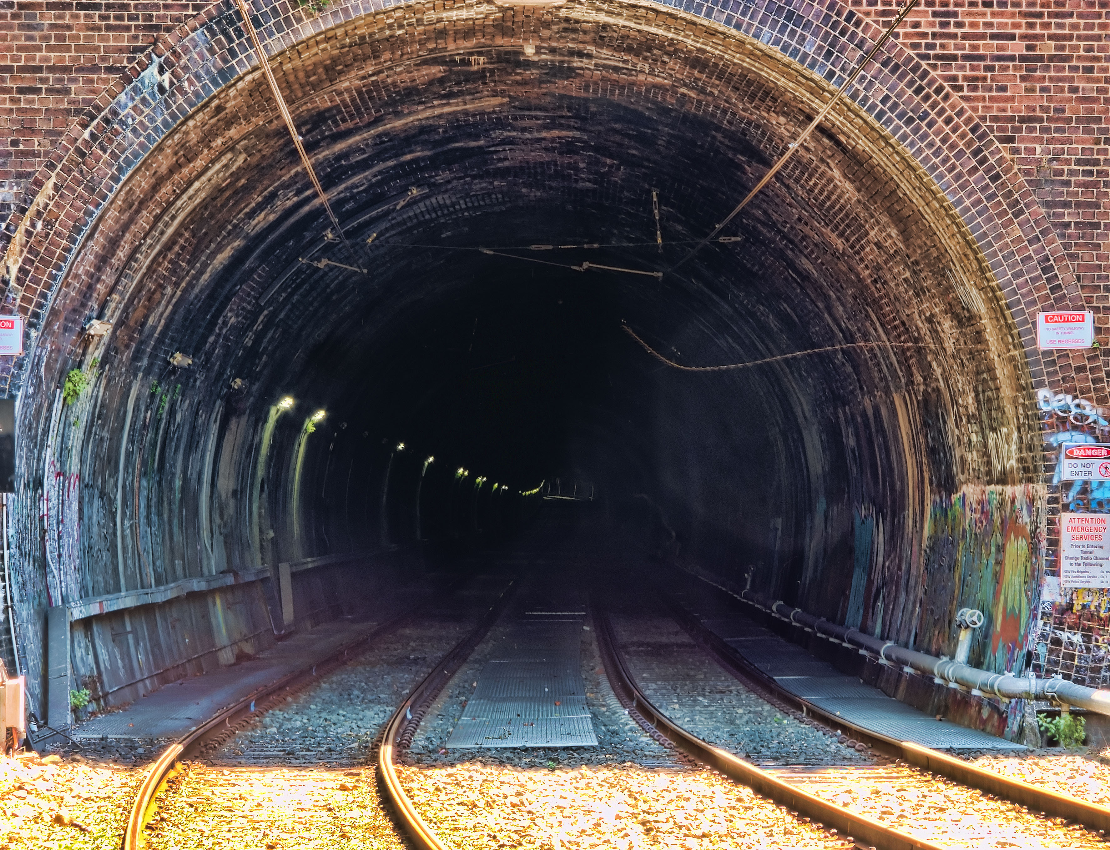 Tunnel between Glebe and Jubilee Park on the Inner West Light Rail.